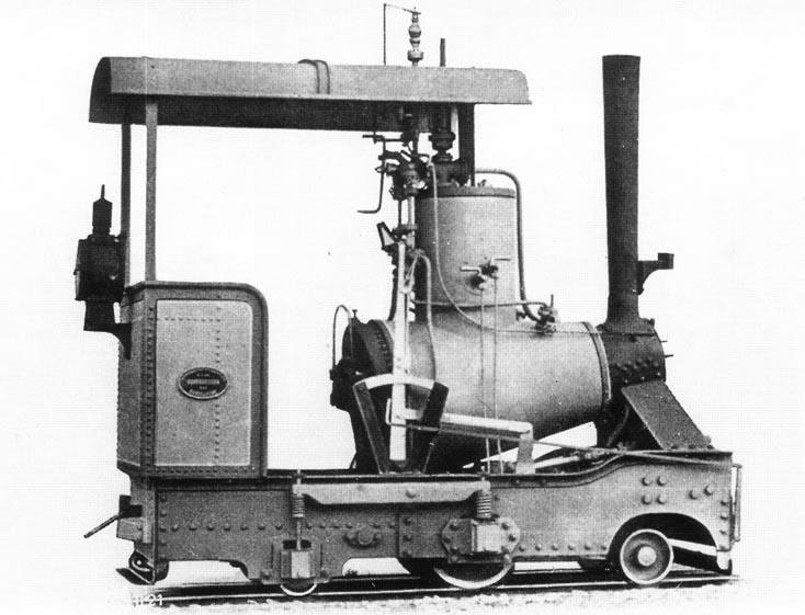 Hohenzollern Locomotive Works Nº447, 600mm heeresfeldbahn locomotive for the Prussian Army, fitted with the Hohenzollern conical boiler.